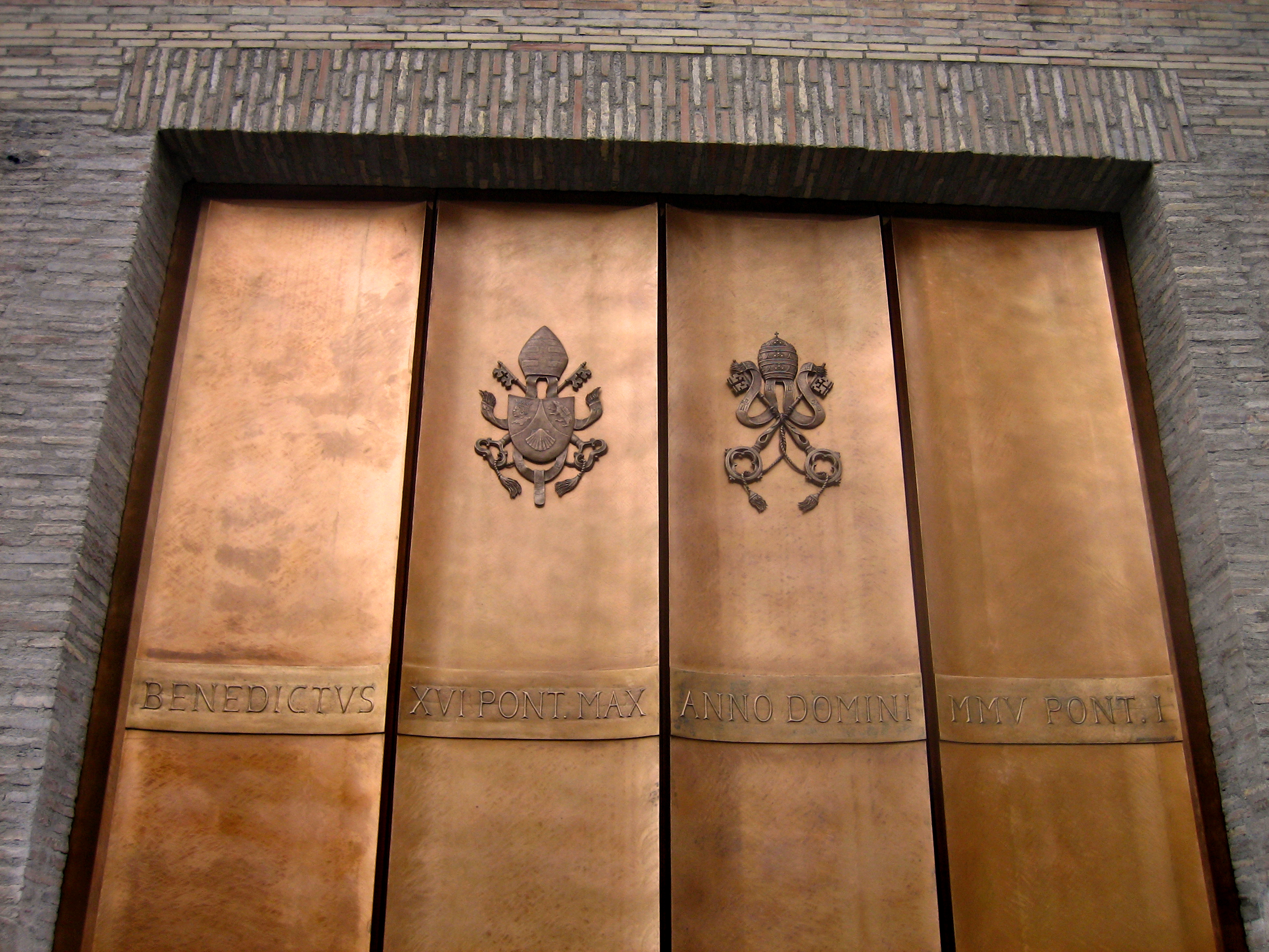 Example of public art under Pope Benedict XVI. Gate of a garage to the Vatican. Text: "BENEDICTUS XVI PONT. MAX ANNO DOMINI MMV PONT. I". TRANSLATION: Benedict XVI, the Supreme Pontiff, in the year of our Lord, 2005, in the first year of his pontificate.